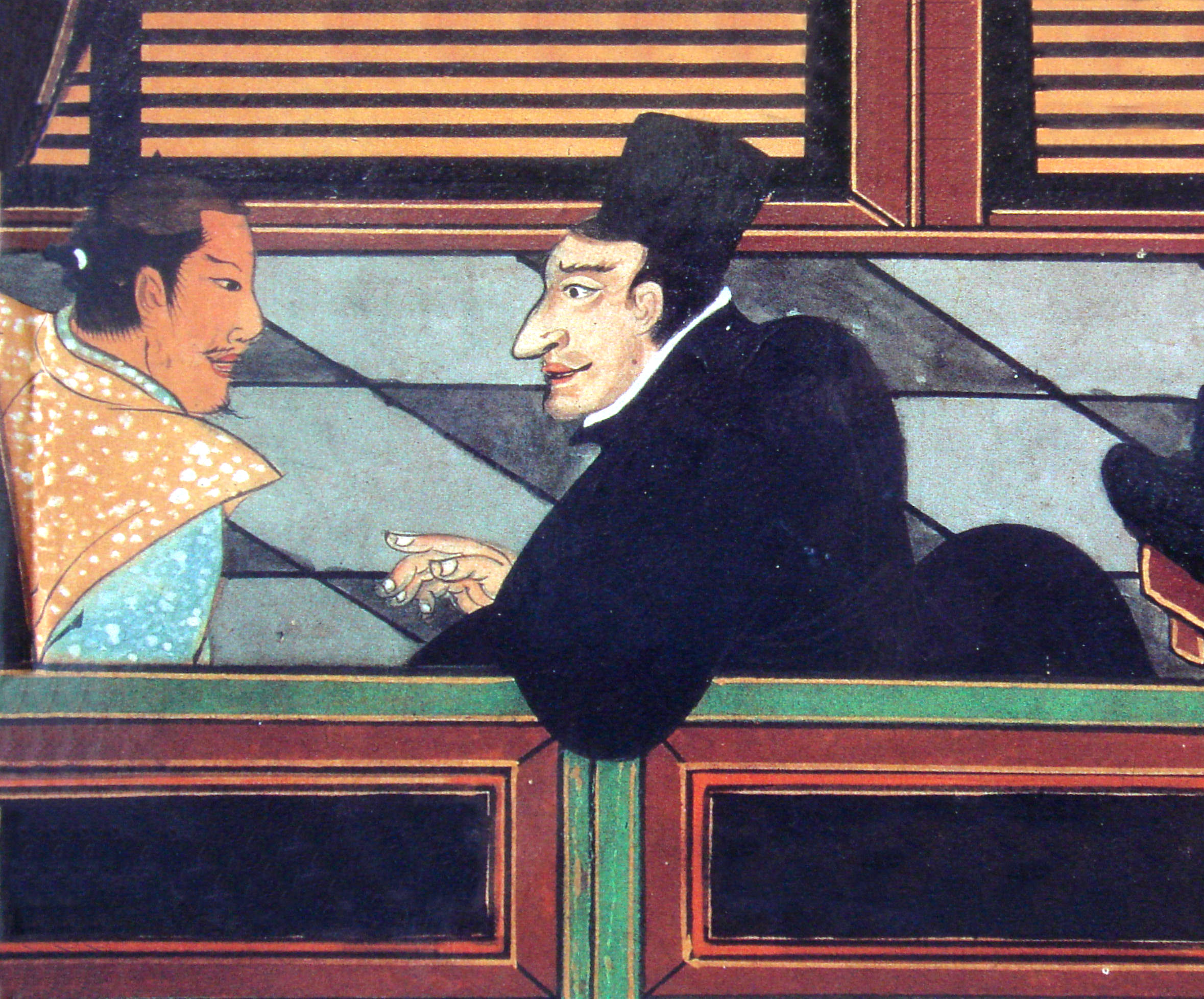 Jesuit_with_Japanese_nobleman_circa_1600